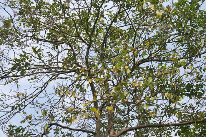 Moulmein Rosewood Millettia peguensis in Kolkata, West Bengal, India.